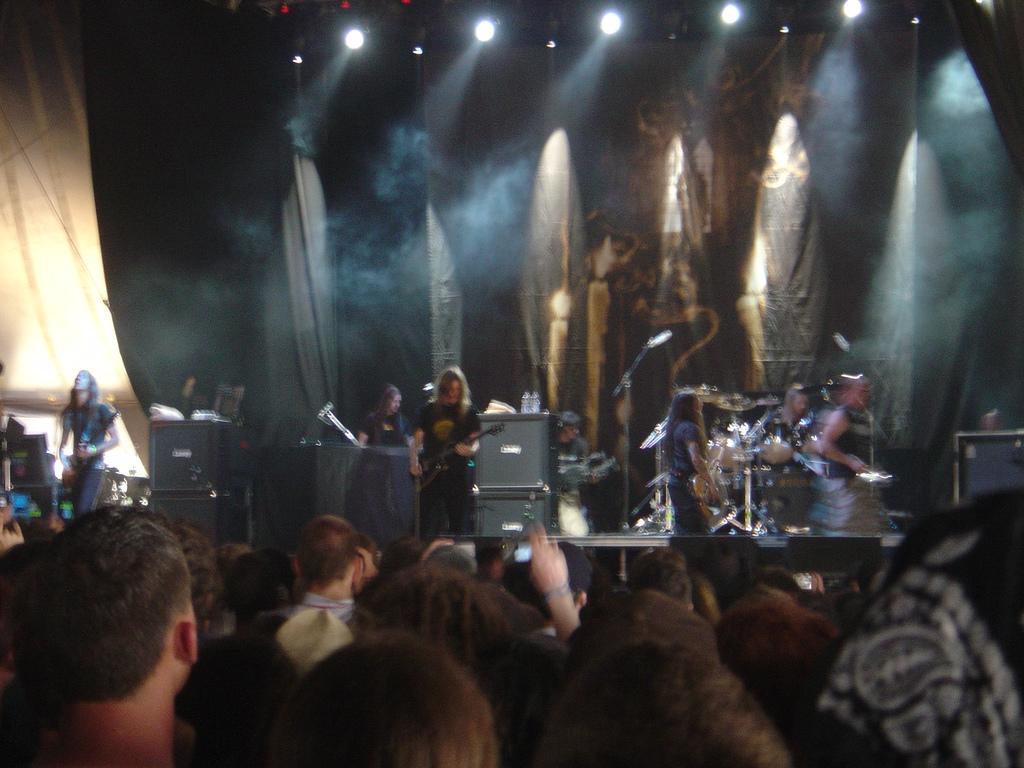 I get the feeling I'm missing out by having not heard a lot of Opeth. The crowd were very, very into this, and the pit which started pretty much around me looked pretty savage.